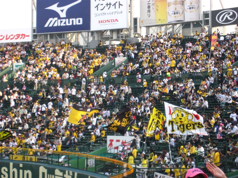 Super fans at a Hanshin Tigers game.